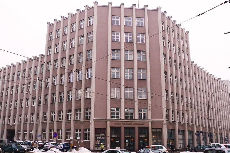 ZUS Building in Poznan.